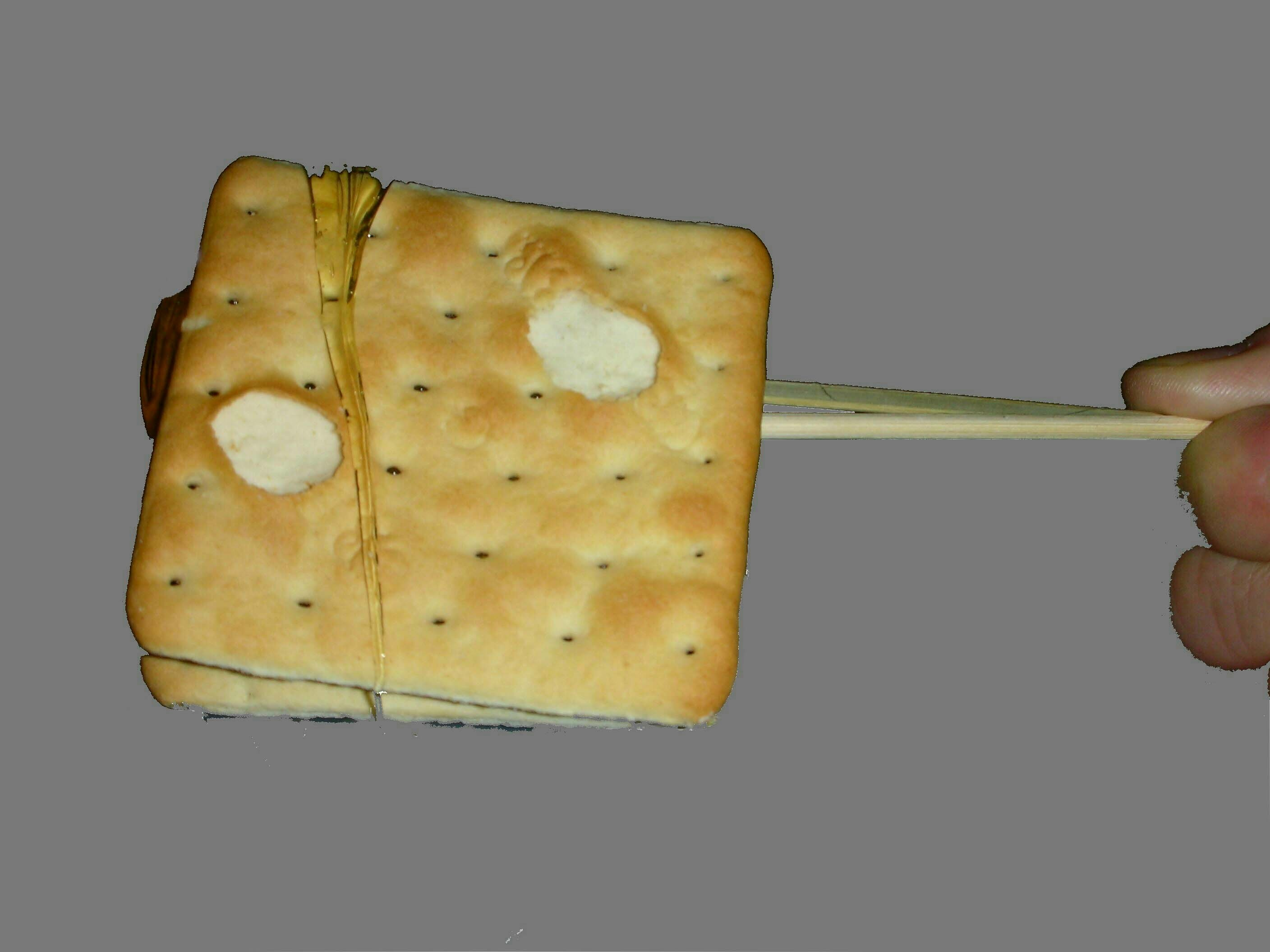 Maltose with biscuits, a traditional Hong Kong snack food, found at Tai O, Hong Kong 麥芽糖夾餅，攝於香港大澳（本照片曾經去除背景色處理）